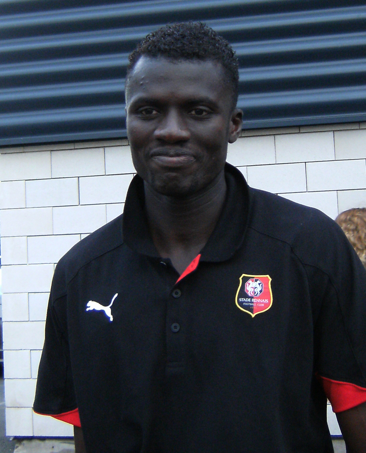 Kader Mangane after a friendly game between Stade rennais FC and Stade Malherbe de Caen in Ouistreham